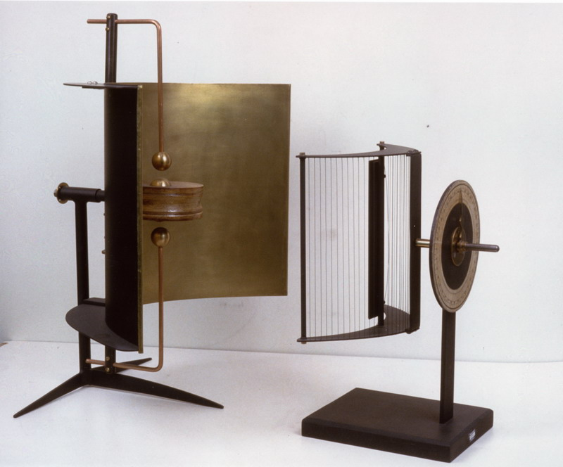 Replica of Agusto Righi's 1894 experimental Hertzian wave apparatus built in 1984 for display purposes consists of a metal pedestal that supports a parabolic mirror of brass sheet. At the focus of this parabola there is a spark oscillator consisting of 4 brass spheres, with a wooden and wax paper container surrounding the spark gaps containing vaseline oil. The mirror and the oscillator attached to it are free to rotate around the coupling pin with the pedestal. Funzione Replica di una tipologia di oscillatori a quattro sfere con scarica in olio di vaselina inventato da Augusto Righi intorno al 1894. Questi oscillatori, collegati ad un rocchetto di induzione, irradiavano onde radio di lunghezze d'onda inferiori ai 10 centimetri. La presenza del riflettore parabolico serviva a convogliare questa radiazione in un'unica direzione e a ridurre la dispersione di energia. La scarica elettrica, secondo l'intuizioni del fisico bolognese (che si rifaceva a precedenti studi degli scienziati di Ginevra De la Rive e Sarazin), avvenendo tra sfere di ottone contenute all'interno di un bagno d'olio di vaselina risultavano più efficaci nella produzione di onde radio centimetriche. Questi oscillatori veniva usato in coppia con un ricevitore anch'esso provvisto di riflettore parabolico (vedi documentazione fotografica allegata e oggetto n° inventario 8758). Righi e altri scienziati li utilizzavano per svolgere esperimenti sulle proprietà delle onde radio. Nel campo degli studi delle oscillazioni elettriche e del comportamento delle onde radio compiuti alla fine dell'Ottocento, questo strumento fu decisivo per verificare l'analogia tra la luce e le onde radio. Inoltre ebbe grande importanza per lo sviluppo delle radiocomunicazioni infatti Marconi nei suoi primi esperimenti di telegrafia senza fili utilizzerà proprio un oscillatore del tipo Righi.